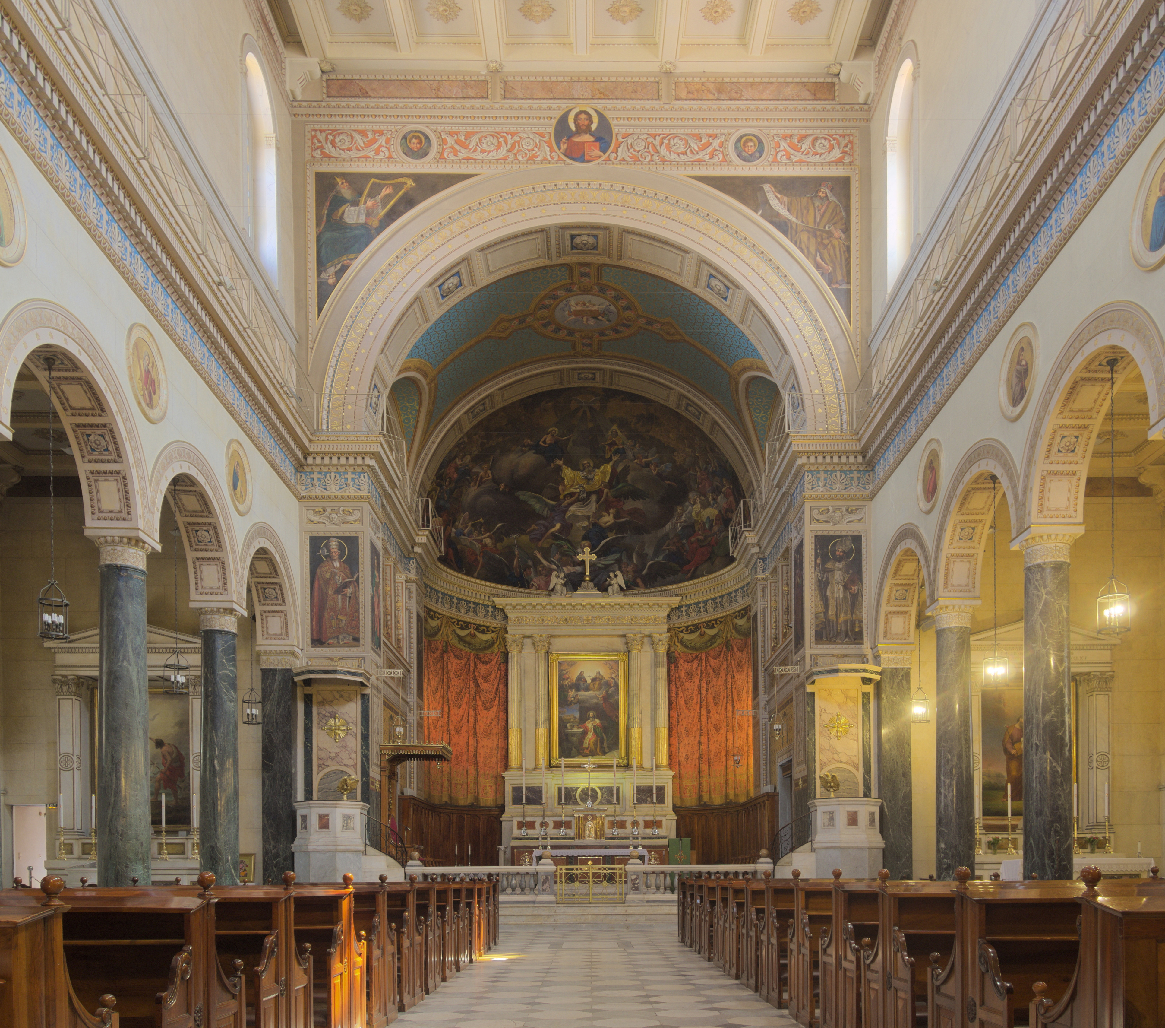 The interior of the catholic church o Aghios Dionysios Aeropagitis, the catholic cathedral of Athens. The temple was designed by Leo von Klenze (1784-1864) and the designs were modified by Lysandros Kaftatzoglou (1811-1885). Above the nave is the fresco representing the Apotheosis of Saint Dionysius the Areopagite (1890), work of Italian painter Guglielmo Bilancioni (1836-1907). The church floor is paved with Pentelic marble. The nave is supported by 12 columns of 5 meters of green marble from Tinos.